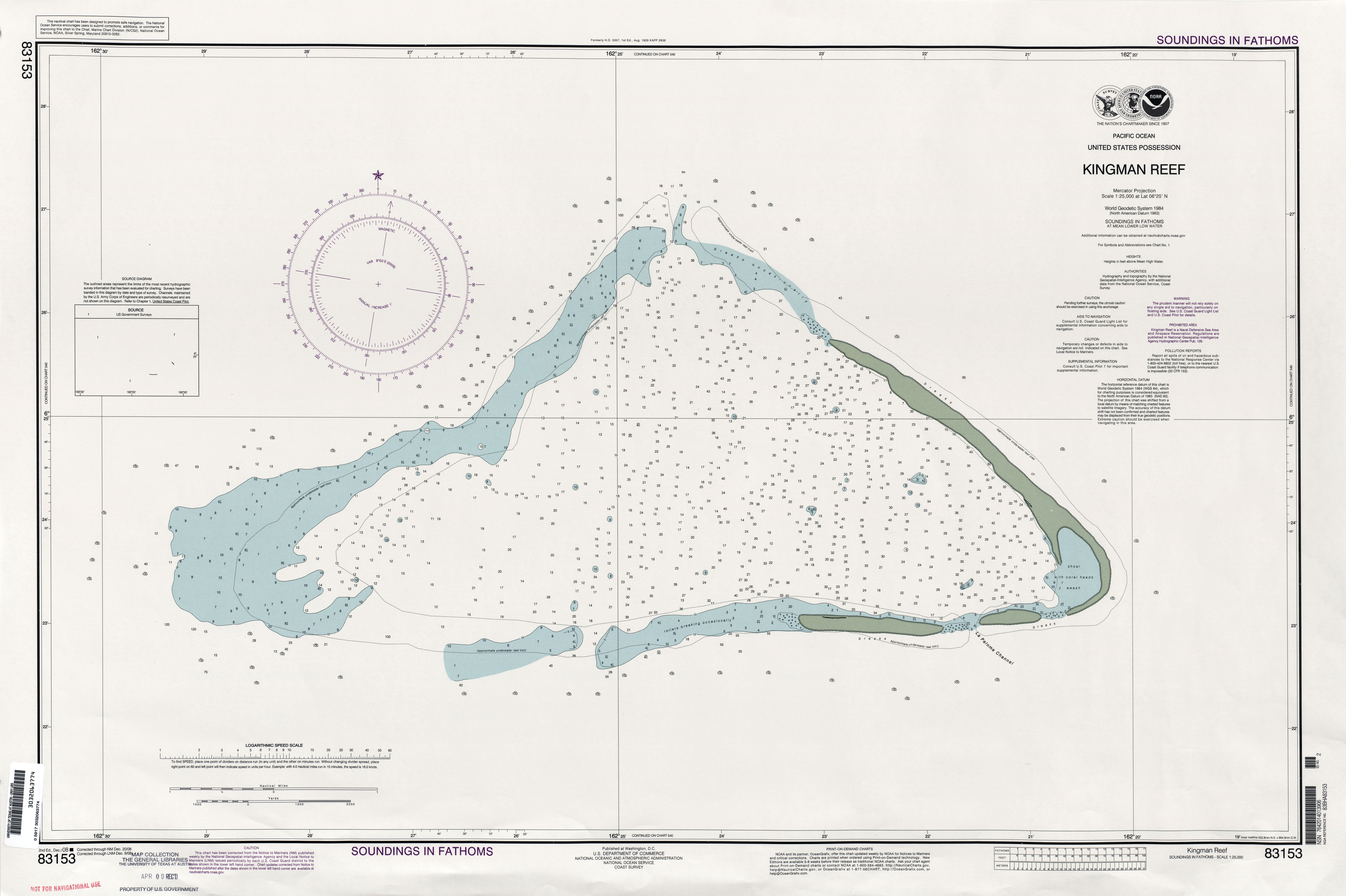 NOAA Nautical chart of Kingman Reef, Pacific Ocean